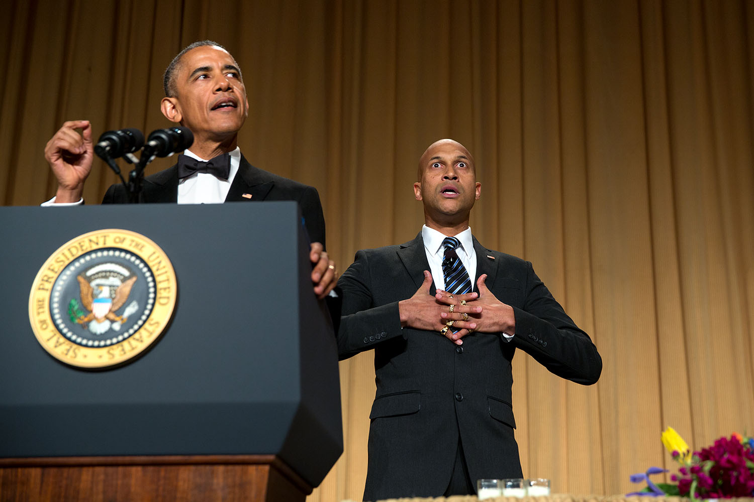 President Barack Obama delivers remarks with the help of comedic actor Keegan-Michael Key during the White House Correspondents' Association Dinner in Washington, D.C., April 25, 2015. (Official White House Photo by Lawrence Jackson)